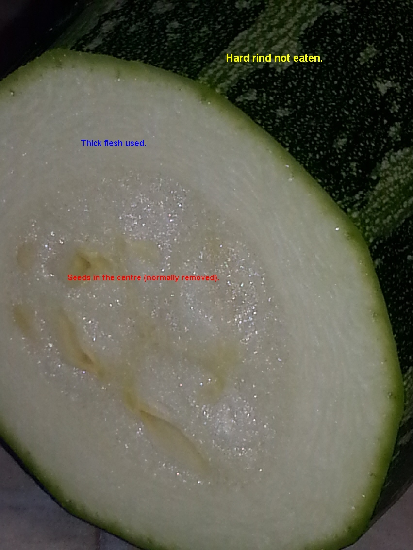 The thick flesh of a vegetable marrow is used in the UK.